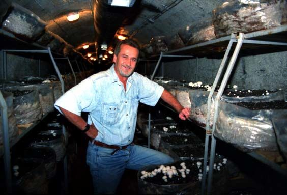 Mushrooms cultivation in an anti-aerial bunker in Zavidovici, Bosnia and Herzegovina. Development project financed by the Local Democracy Embassy at Zavidovici (BiH). Released in Public Domain thanks to Osservatorio Balcani e Caucaso's "Cercavamo la pace" crowd-sourcing project